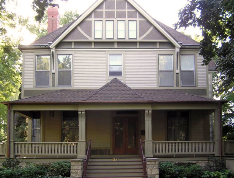 Charles E. Roberts House (1896) in Oak Park, Illinois by Frank Lloyd Wright